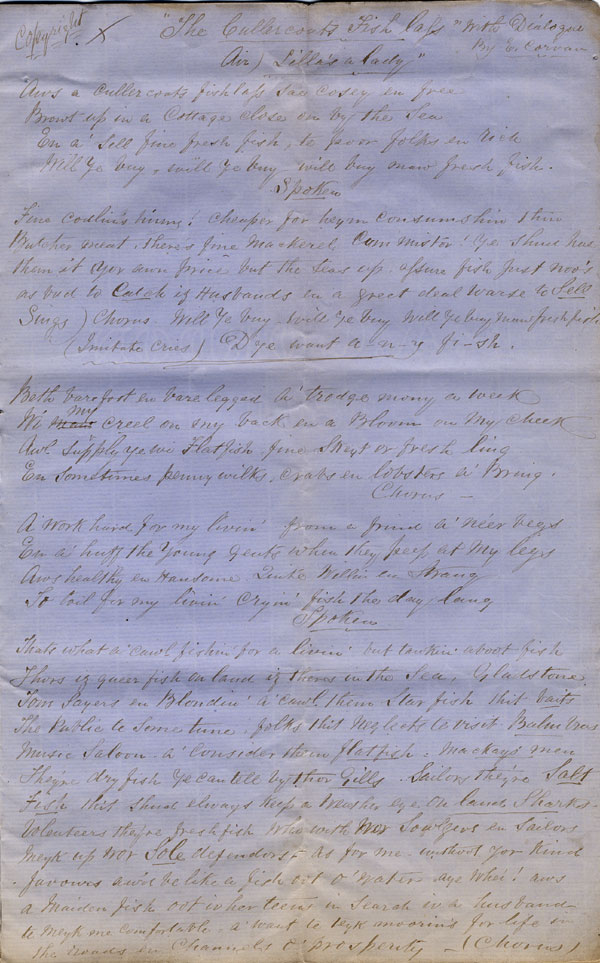 Hand written lyrics for the song, Cullercoats Fish Lass, by Edward Corvan